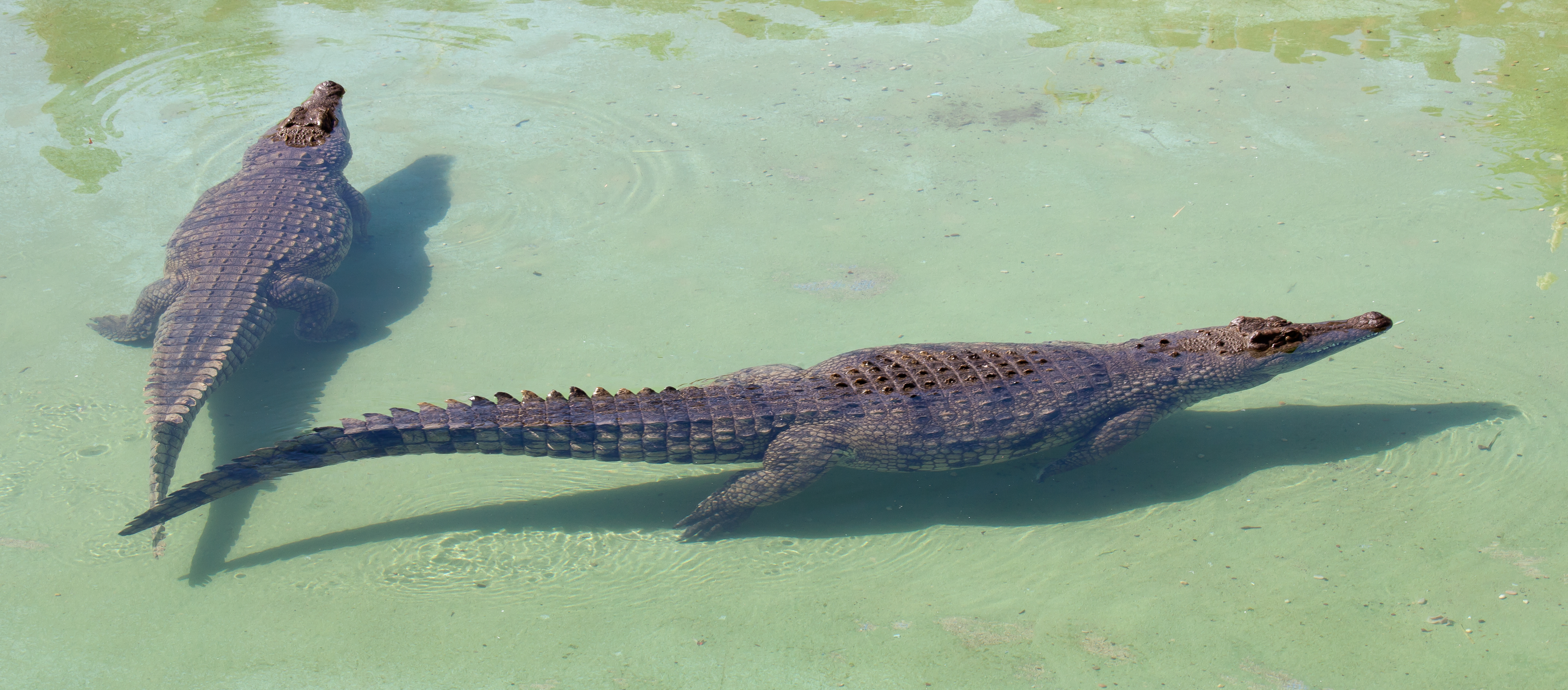 Crocodylus niloticus, Rancho Texas Park, Tías, Lanzarote, the Canary Islands, Spain